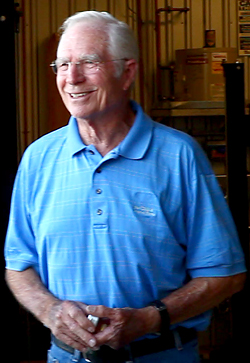 Photo of Jim Hall shortly after driving his Chaparral 2D for a group of fans.